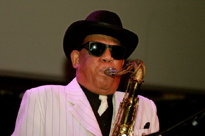 Joe Houston